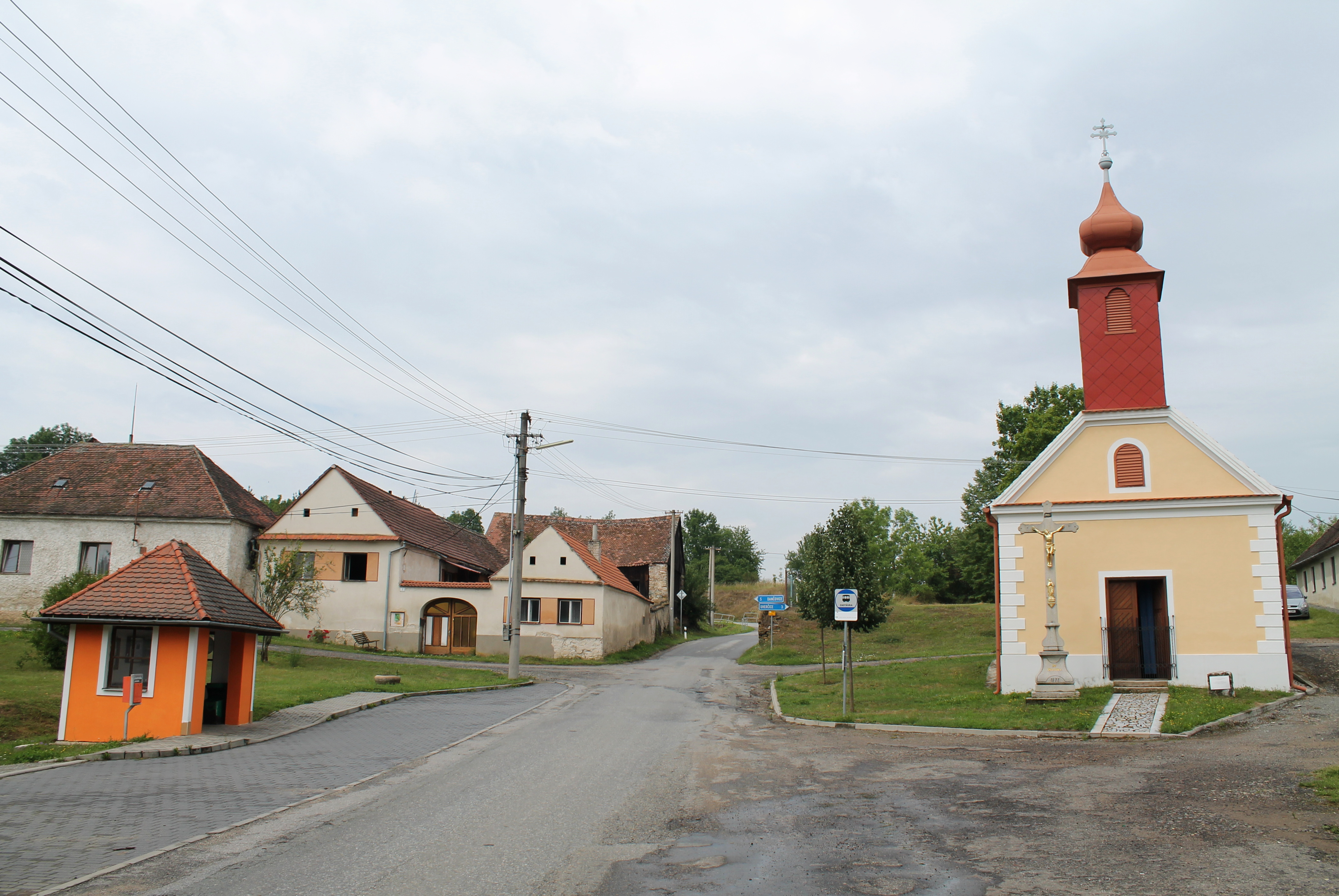 Chapel of Saint Bartholomew, Mešovice, Uherčice, Znojmo District, Czech Republic